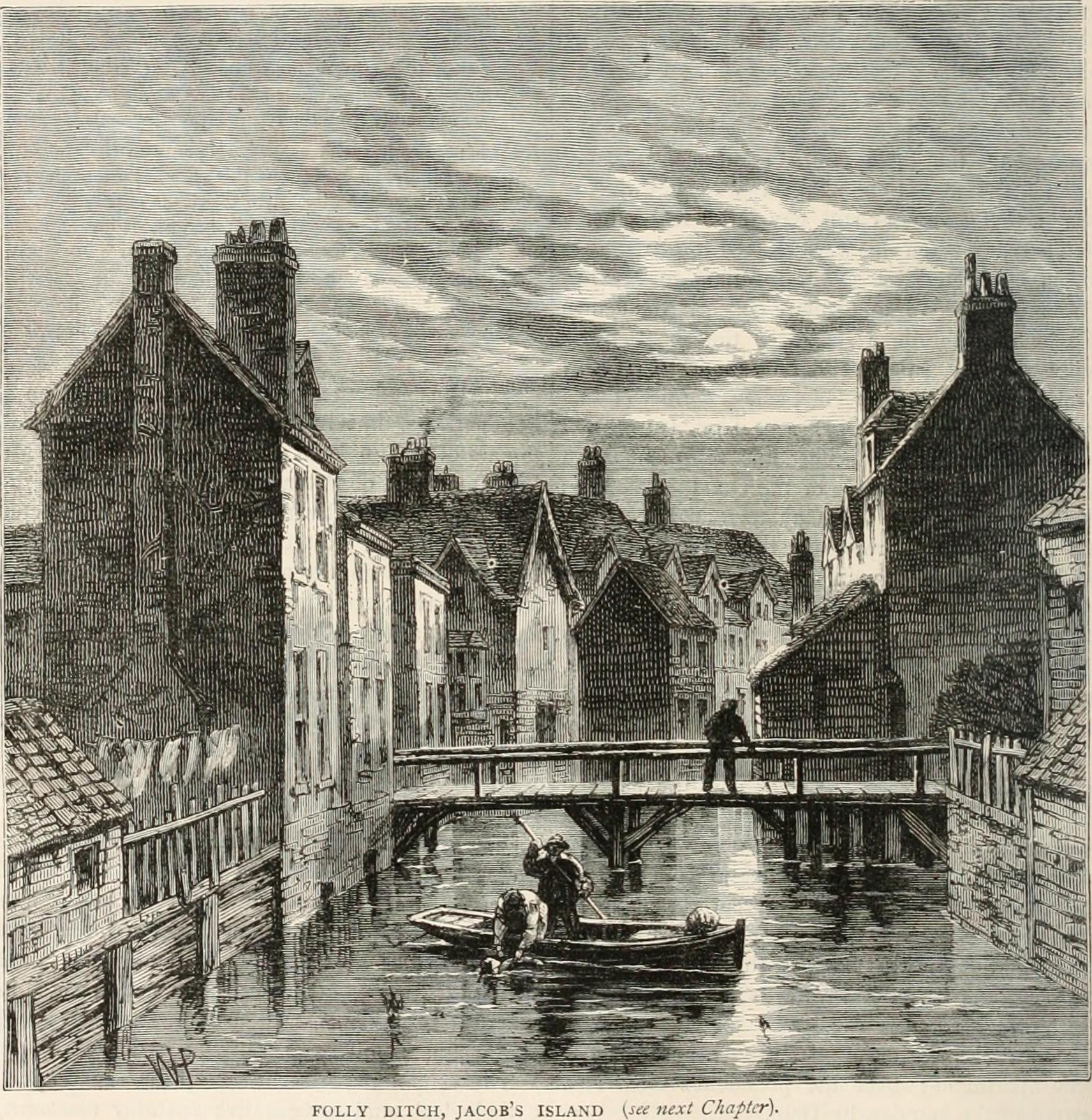 Identifier: oldnewlondonnarr06thor Title: Old and new London : a narrative of its history, its people, and its places Year: 1873 (1870s) Authors: Thornbury, Walter, 1828-1876 Subjects: Publisher: London : Cassell, Petter, & Galpin View Book Page: Book Viewer About This Book: Catalog Entry View All Images: All Images From Book Click here to view book online to see this illustration in context in a browseable online version of this book. Image caption: Folly Ditch, Jacob's Island (see next chapter)